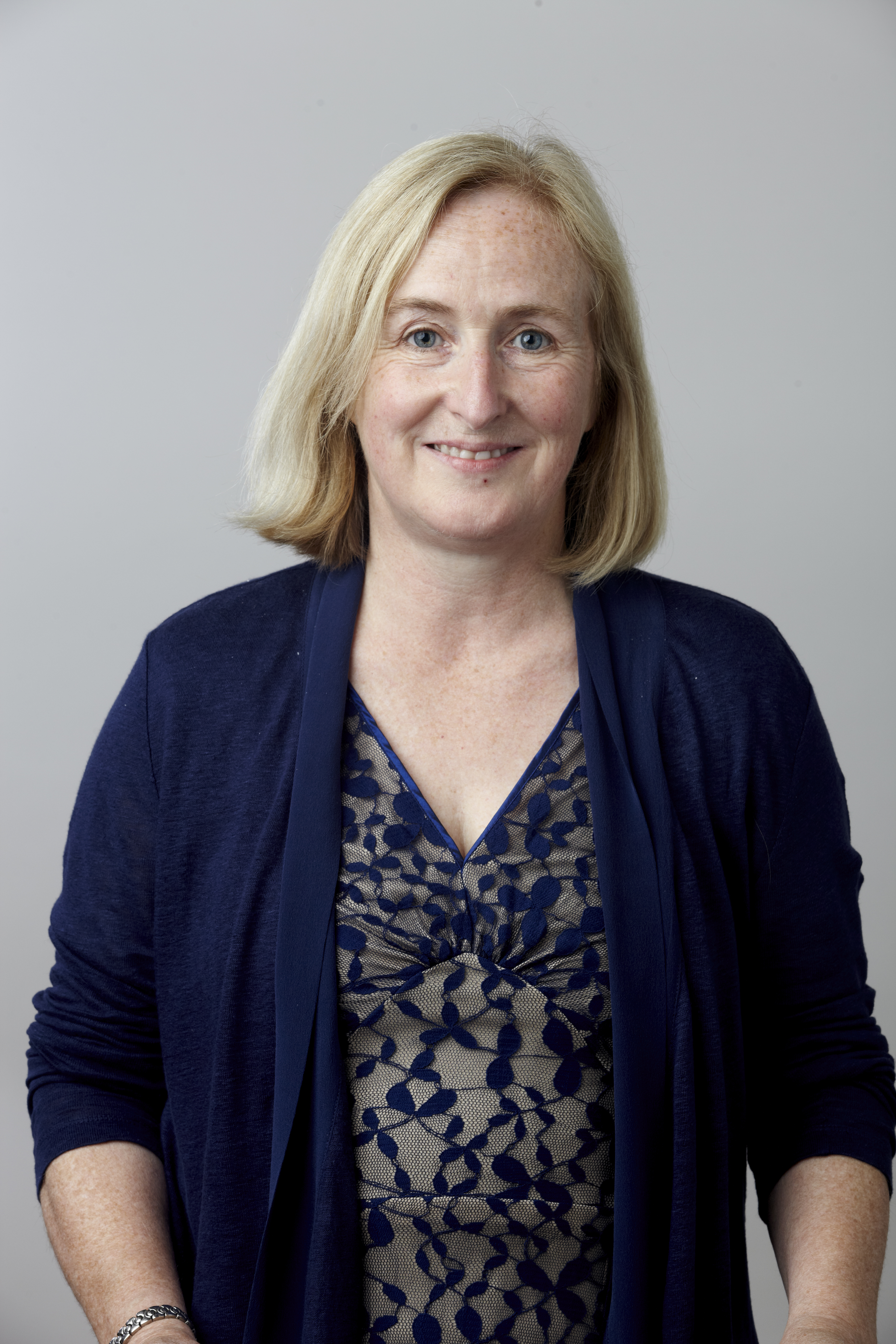 Professor Amanda Fisher FMedSci FRS, Royal Society Fellow elected 2014 Attribution: The Royal Society